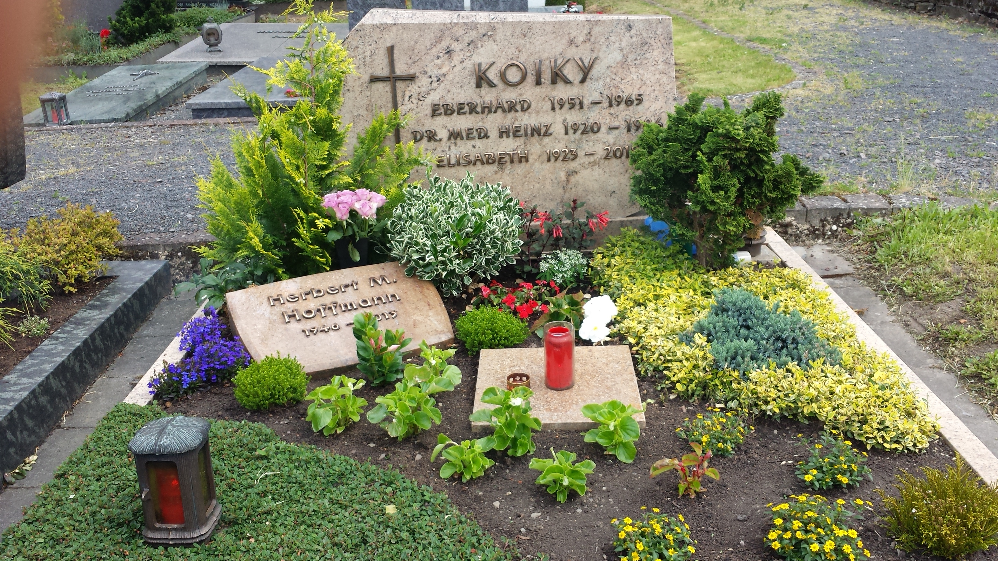 Graveyard of Dr. Heinz Koiky in Cochem